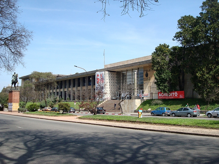 The Faculty of Architecture seen from Artigas Avenue, Parque Rodó barrio, Montevideo, Uruguay.